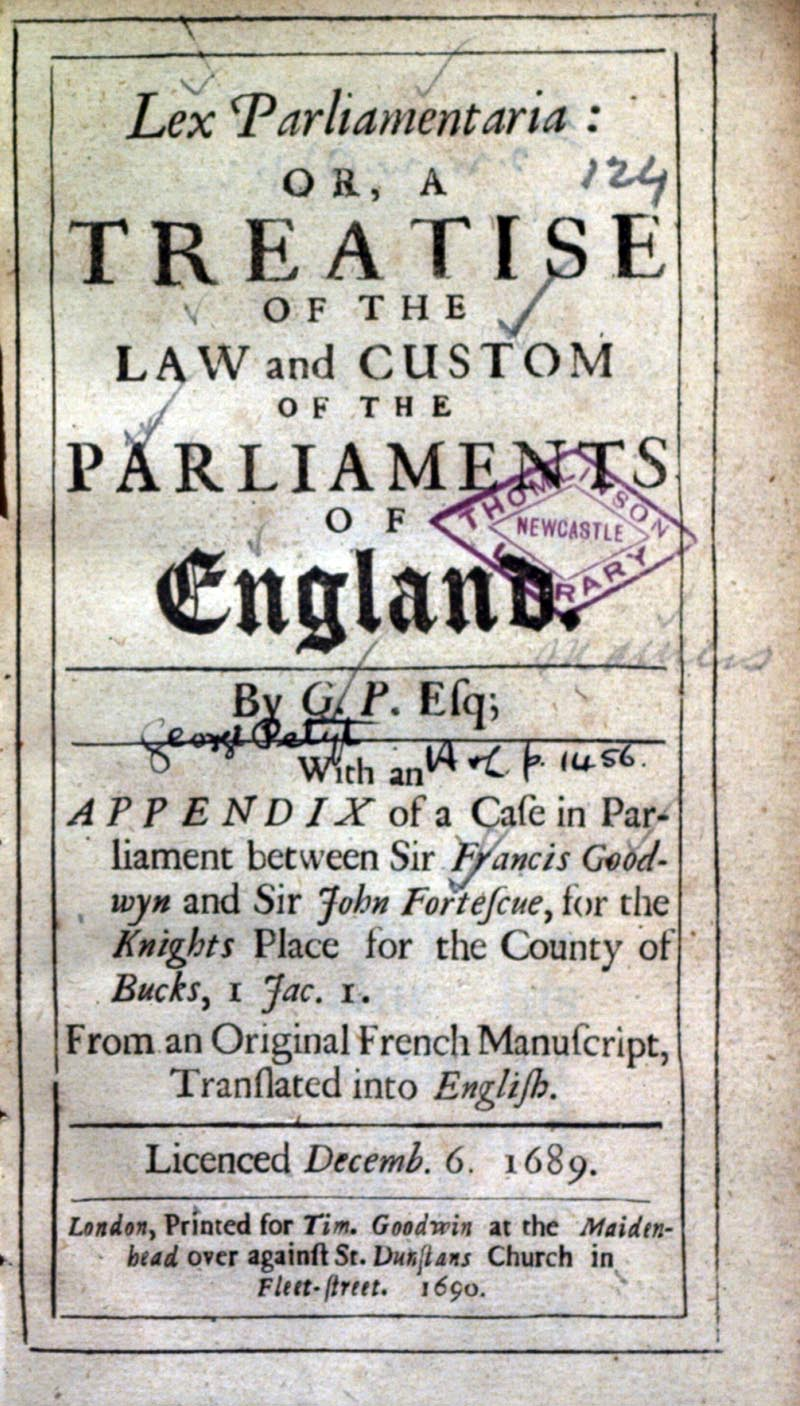 Title page of G. P. (1690) Lex parliamentaria: or, A treatise of the law and custom of the Parliaments of England. By G.P. Esq; with an appendix of a case in Parliament between Sir Francis Goodwyn and Sir John Fortescue, for the knights place for the county of Bucks, I Jac. I. From an original French manuscript, translated into English. Licenced Decemb. 6. 1689, London: Printed for Tim. Goodwin at the Maiden-head over against St. Dunstans Church in Fleet-street OCLC: 265542561. This copy of the book is in the Thomlinson Library of the Newcastle Collection, Newcastle upon Tyne, England, UK.